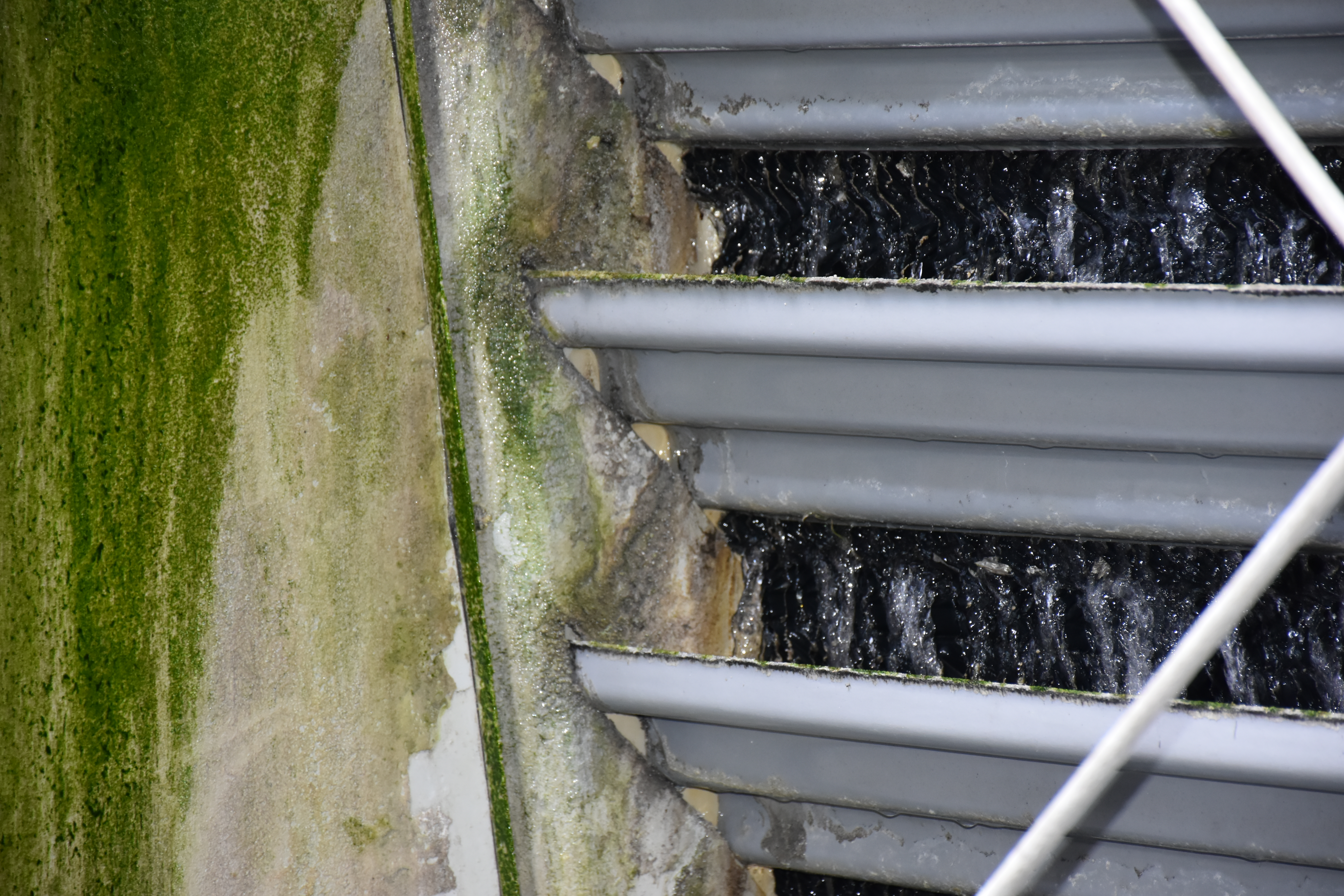 A multitude of microscopic organisms such as bacterial colonies, fungi, and algae can easily thrive within the moderately high temperatures present inside a cooling tower. Therefore, frequent, and effective chemical treatment and shocks are required for cooling water to minimize the likelihood of microorganisms thriving.